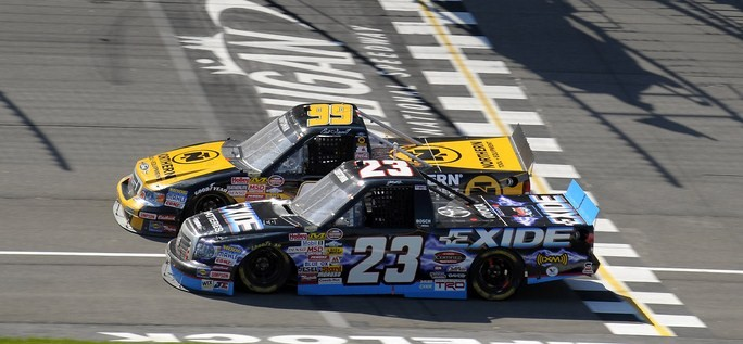 06/14/08 Brooklyn, Michigan USA. Erik Darnell beats Johnny Benson to the line and the win. For more news and information, visit . Autostock